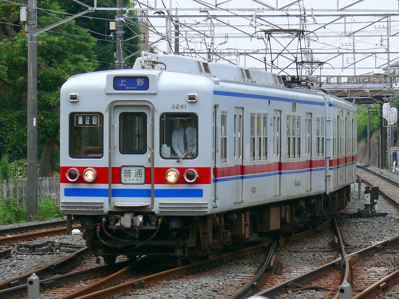 Keisei Electric Railway Type 3200（3261） train.